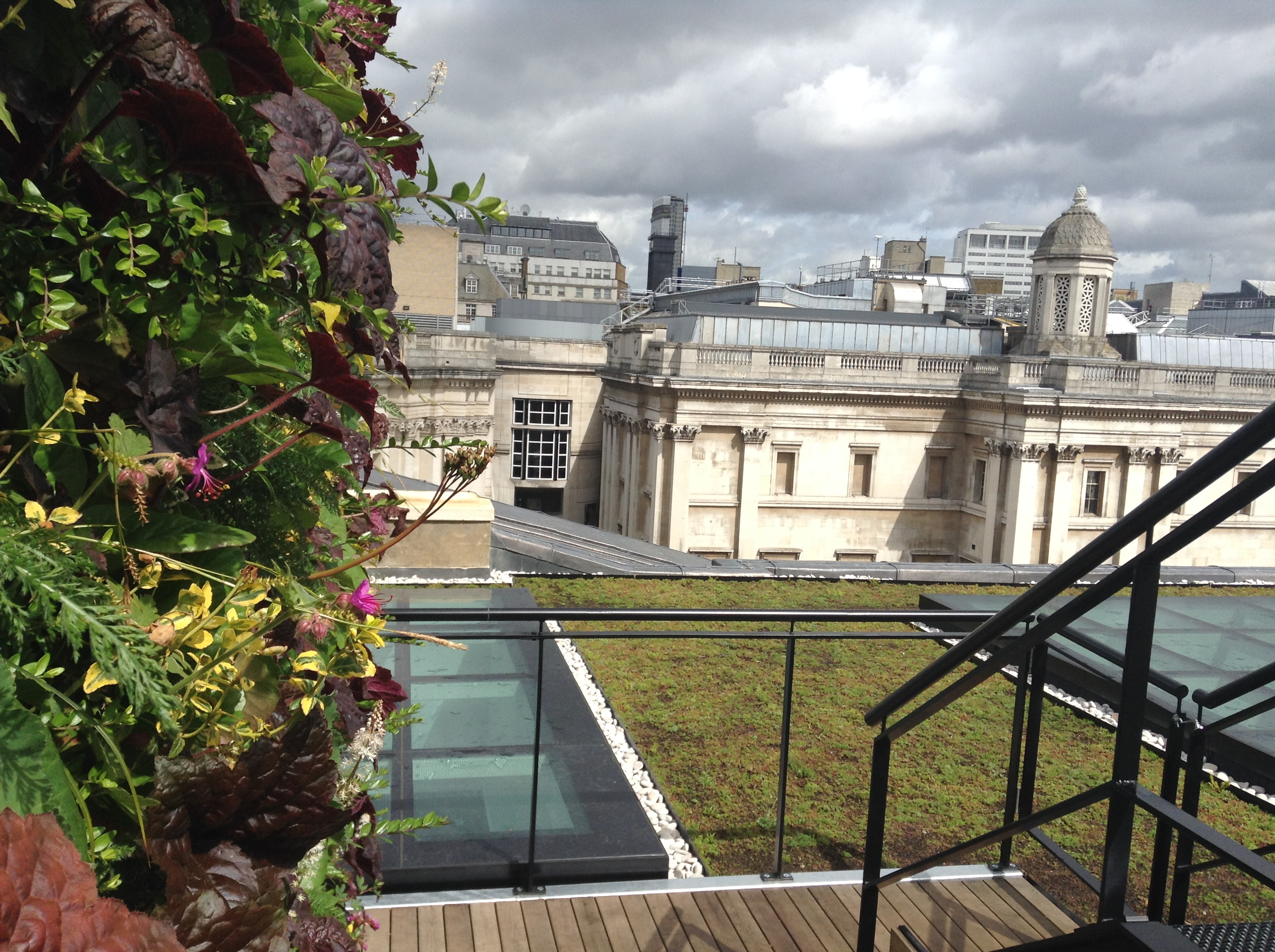 Rooftop of Canada House with living wall and green roof